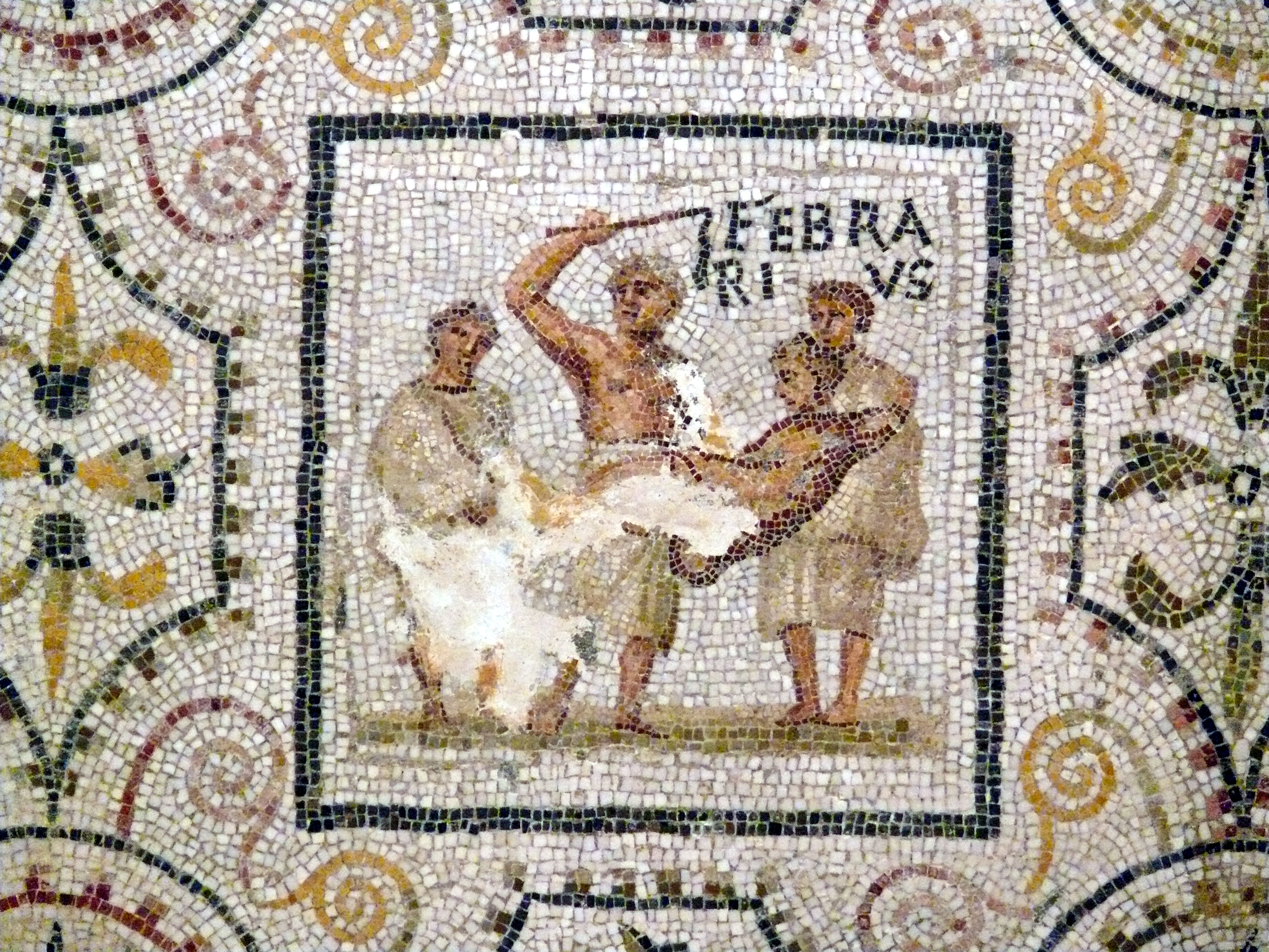 February, fragment of a mosaic with the months of the year, starting with the Roman first month March. First half third century El Jem Archeological Museum of Sousse